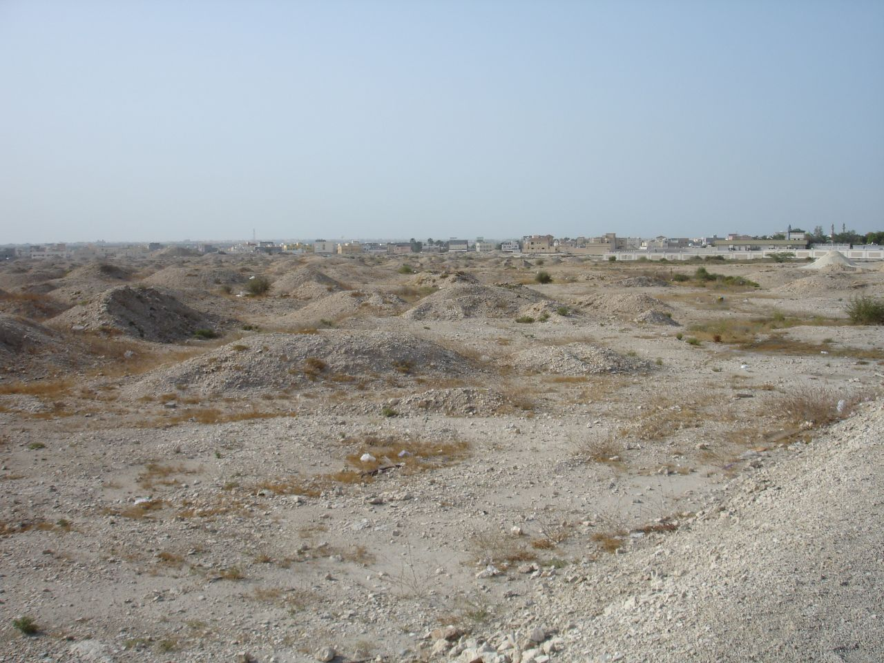 The Burial Mounds in A'ali, Bahrain. They date to the Dilmun era of Bahraini history.